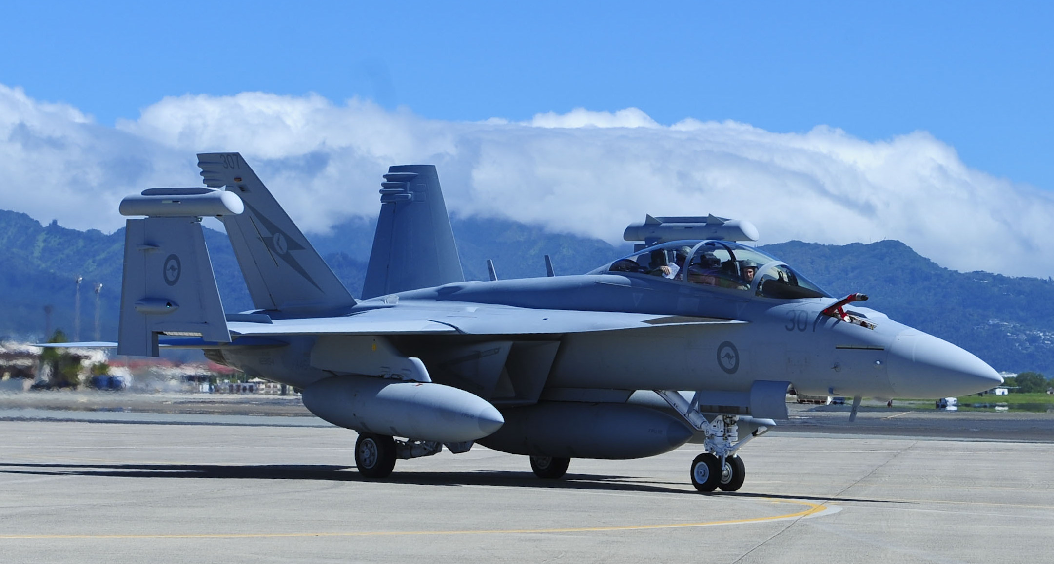 Four EA-18G Growlers arrived at Joint Base Pearl Harbor-Hickam before moving on to Australia, Feb. 16, 2017. The Growler is an electronic attack aircraft capable of proving force level electronic warfare support by disrupting, deceiving or denying a broad range of electronic systems. (U.S. Air Force photo by Tech. Sgt. Heather Redman)